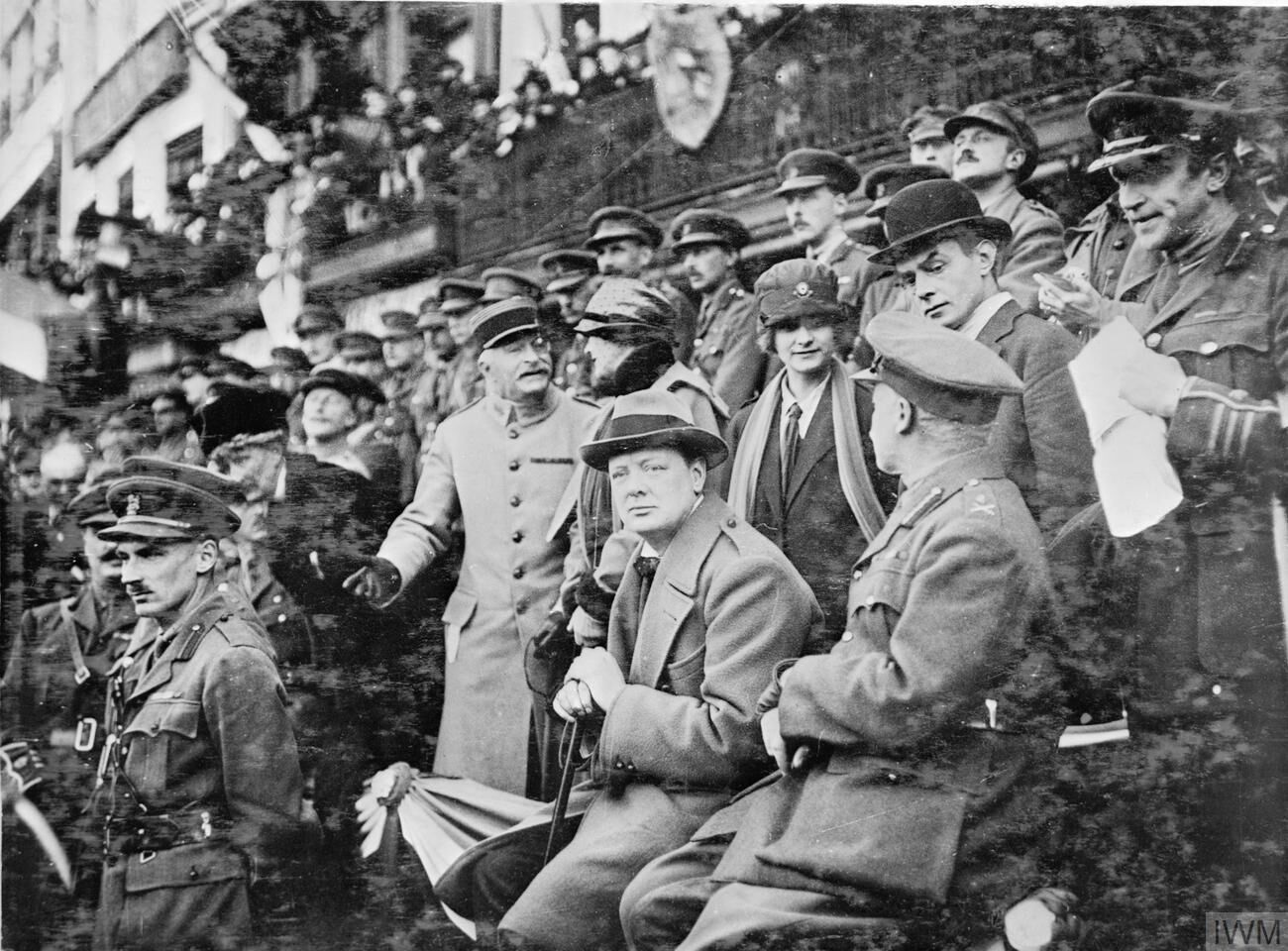 The Hundred Days Offensive, August-november 1918 Official entry into Lille. The Minister of Munitions, Winston Churchill, watching the march past of the 47th Division in the Grande Place, Lille. In front of him is the Chief of Staff of the 47th Division, Lieutenant-Colonel Bernard Montgomery.